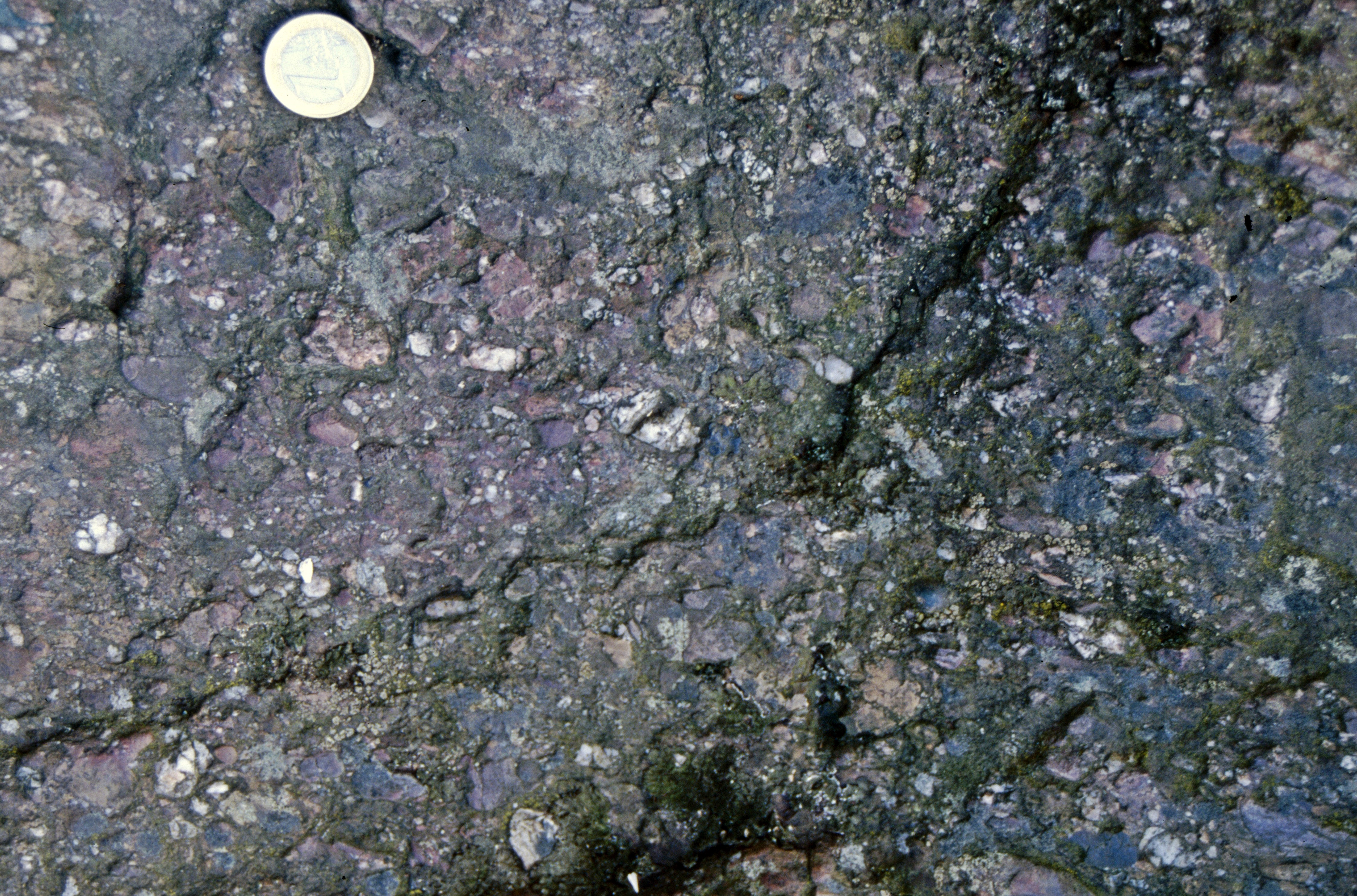 Detail of the rock cliff "Kluckensteine" south of the village Vicht. The edge-rounded components were transported during intense rainfall events over a short distance and deposited on a wide coastal plain at the beginning of the Middle Devonian. Silt layers between coarser beds delivered plant fossil from the Eifelian.